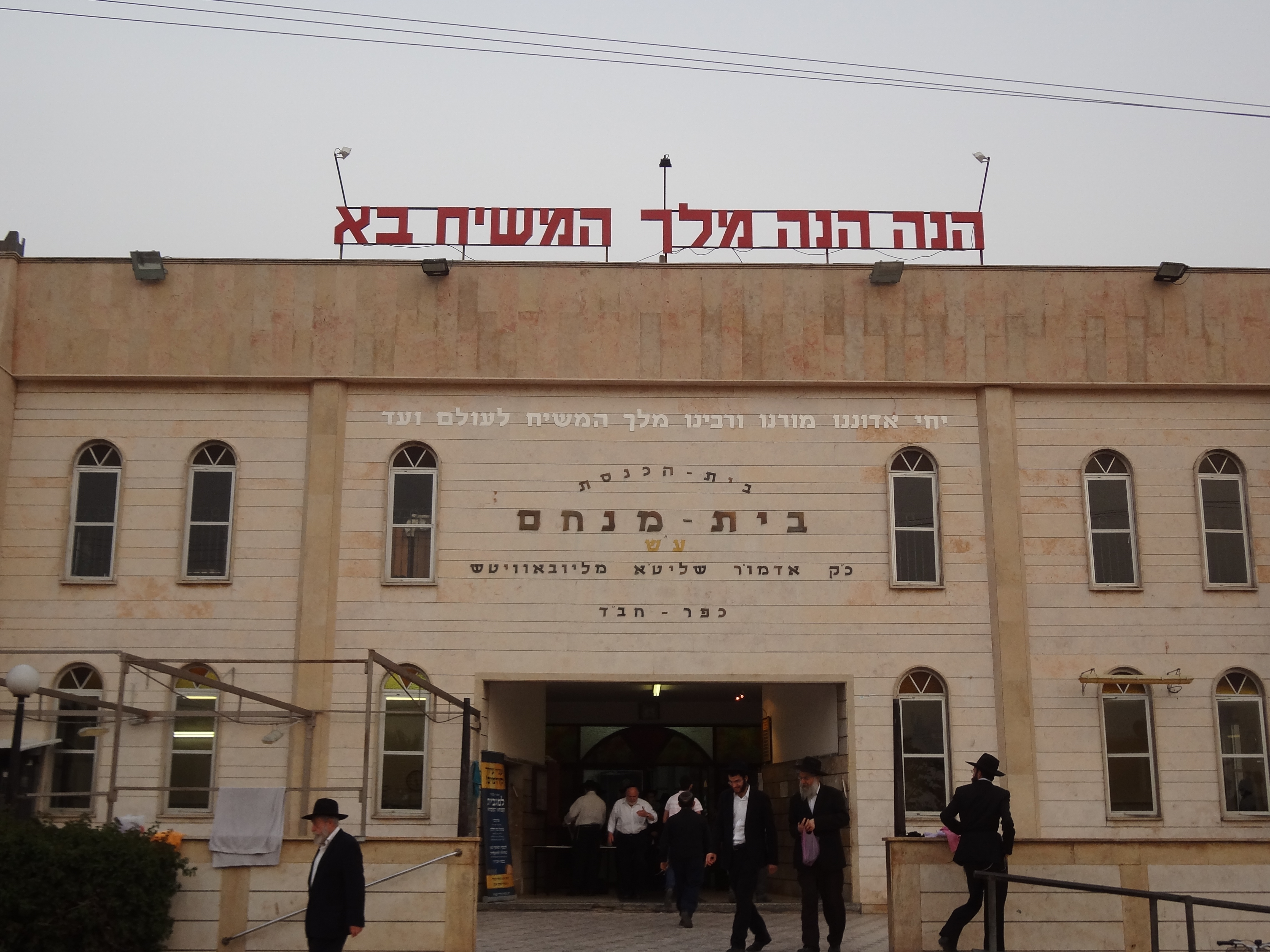 Beit Menachem, the main synagogue in Kfar Chabad, Israel